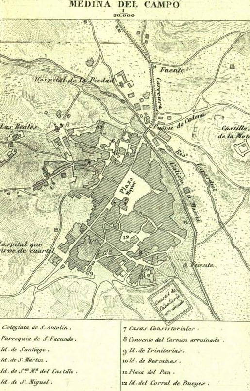 Map of Medina del Campo assembled of several pieces of the 1852 general map of the province of Valladolid by Francisco Coello